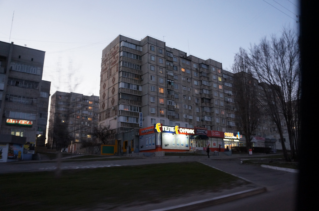 Soviet apartment blocks in Kremenchuk